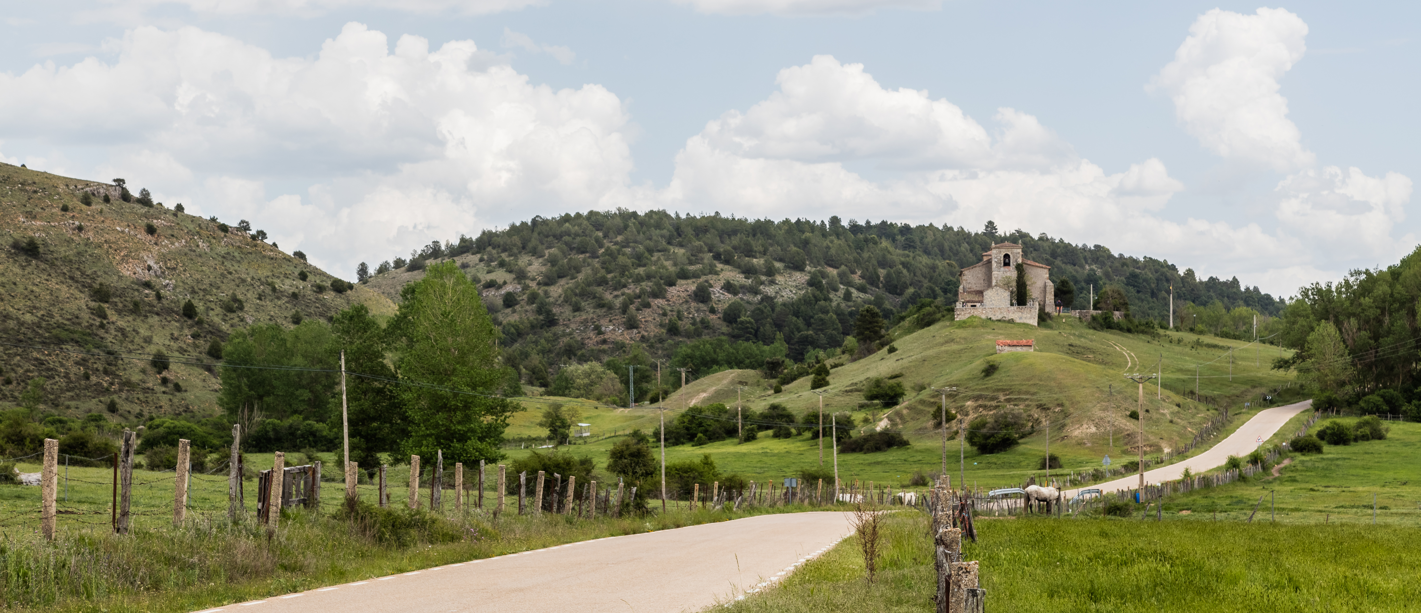 Hermitage of St Roque, Vadillo, Soria, Spain